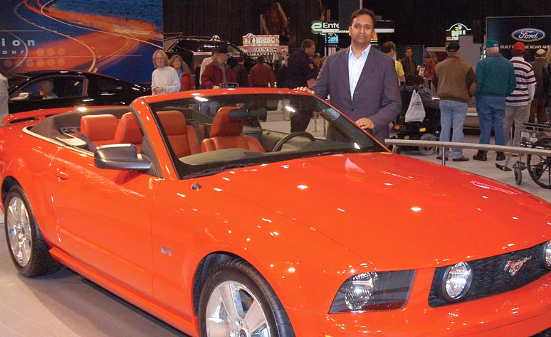 GCADA-Mustang